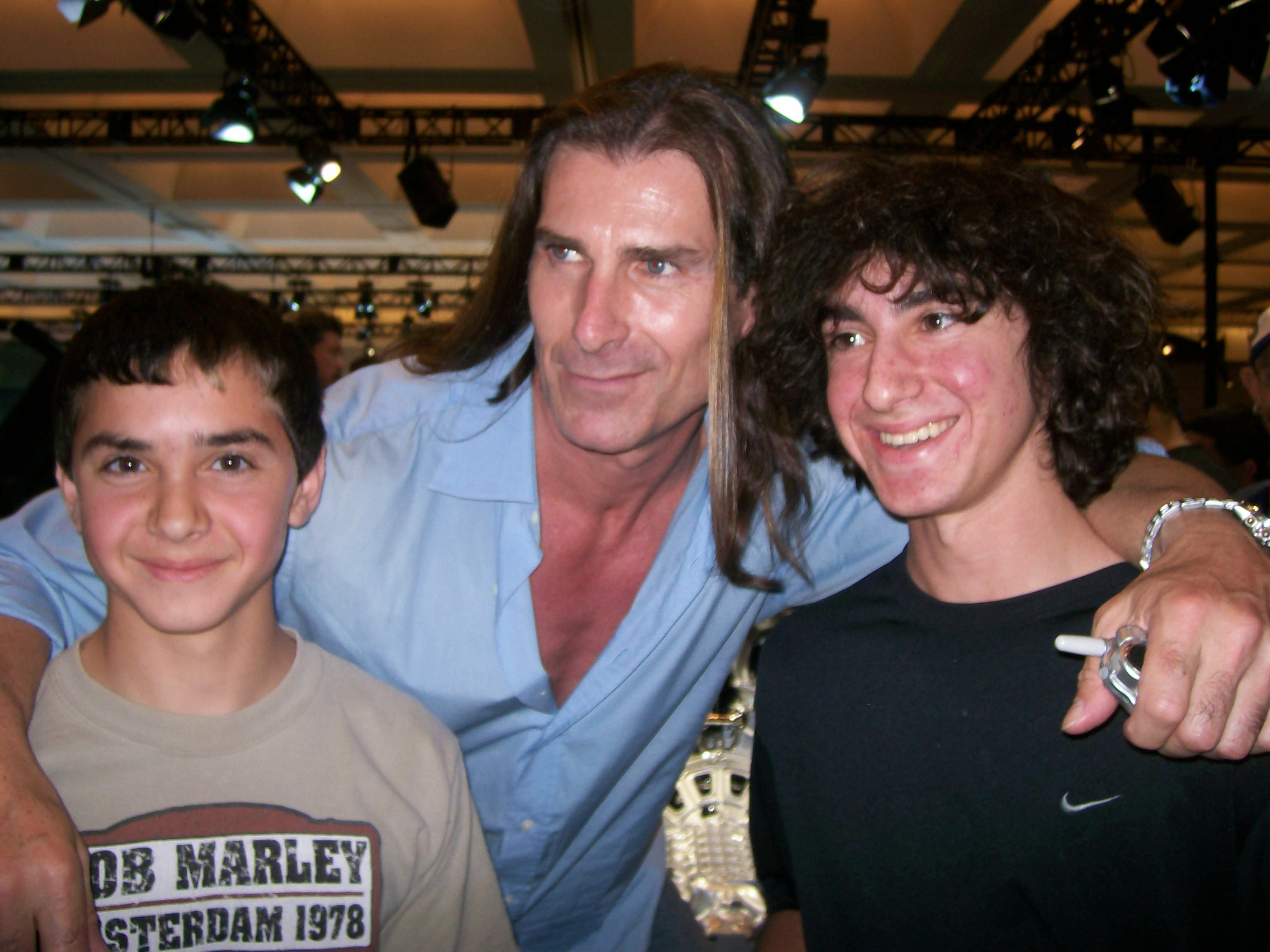 Picture of Fabio Lanzoni